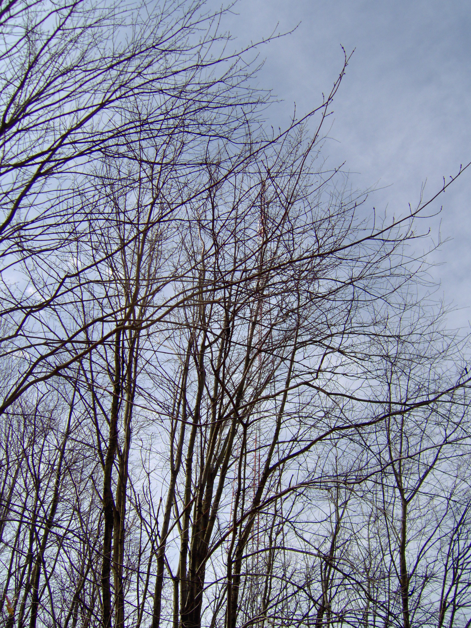 Radio transmitter tower for WOYL in Oil City, Pennsylvania.